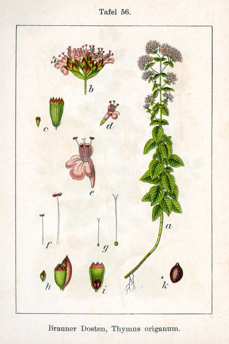 Origanum vulgare L., syn. Thymus origanum Kuntze Original Description Brauner Dosten, Thymus origanum